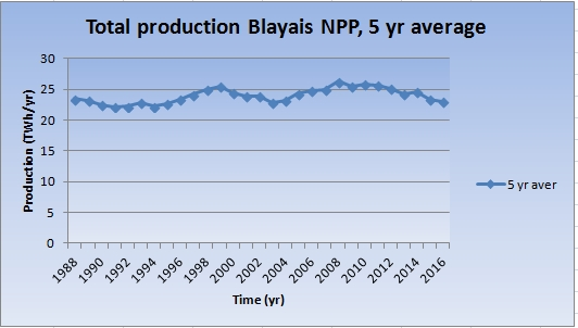 Simple Excel presentation of production data from